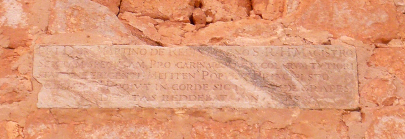 White Tower - De Redin towers Malta - orginal description. This media is about Maltese cultural property with inventory number 32.